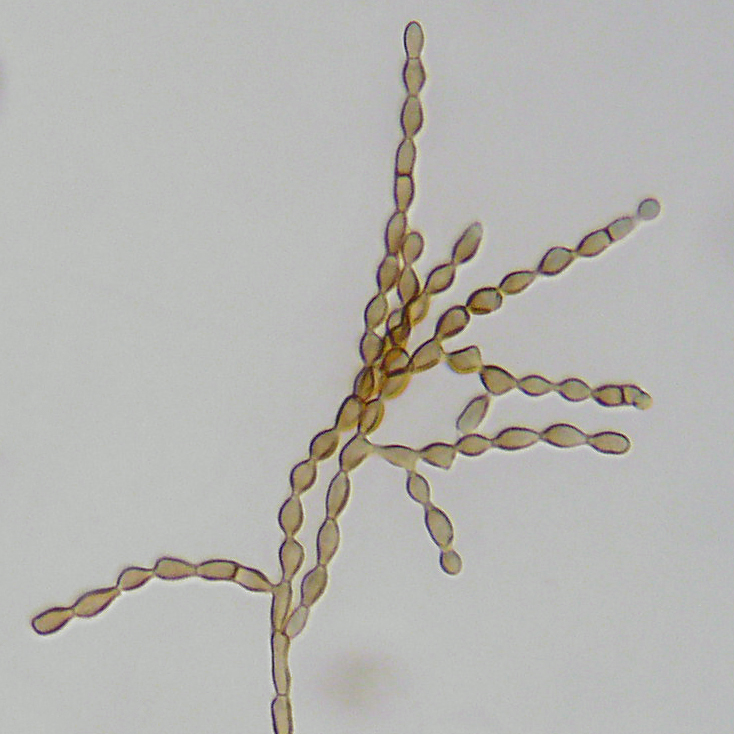 Conidia and conidiophore of Cladosporium cladosporioides